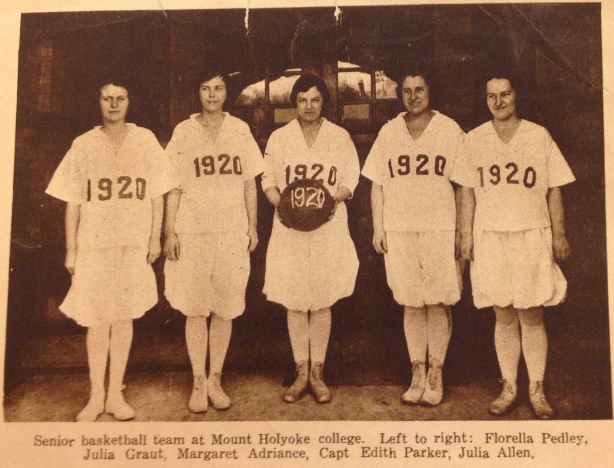 1920 Basketball Team from Mount Holyoke College. Julia Rebecca Grout became first Director of Duke Women's Physical Education program and expanded program at Duke during her 40-year career.